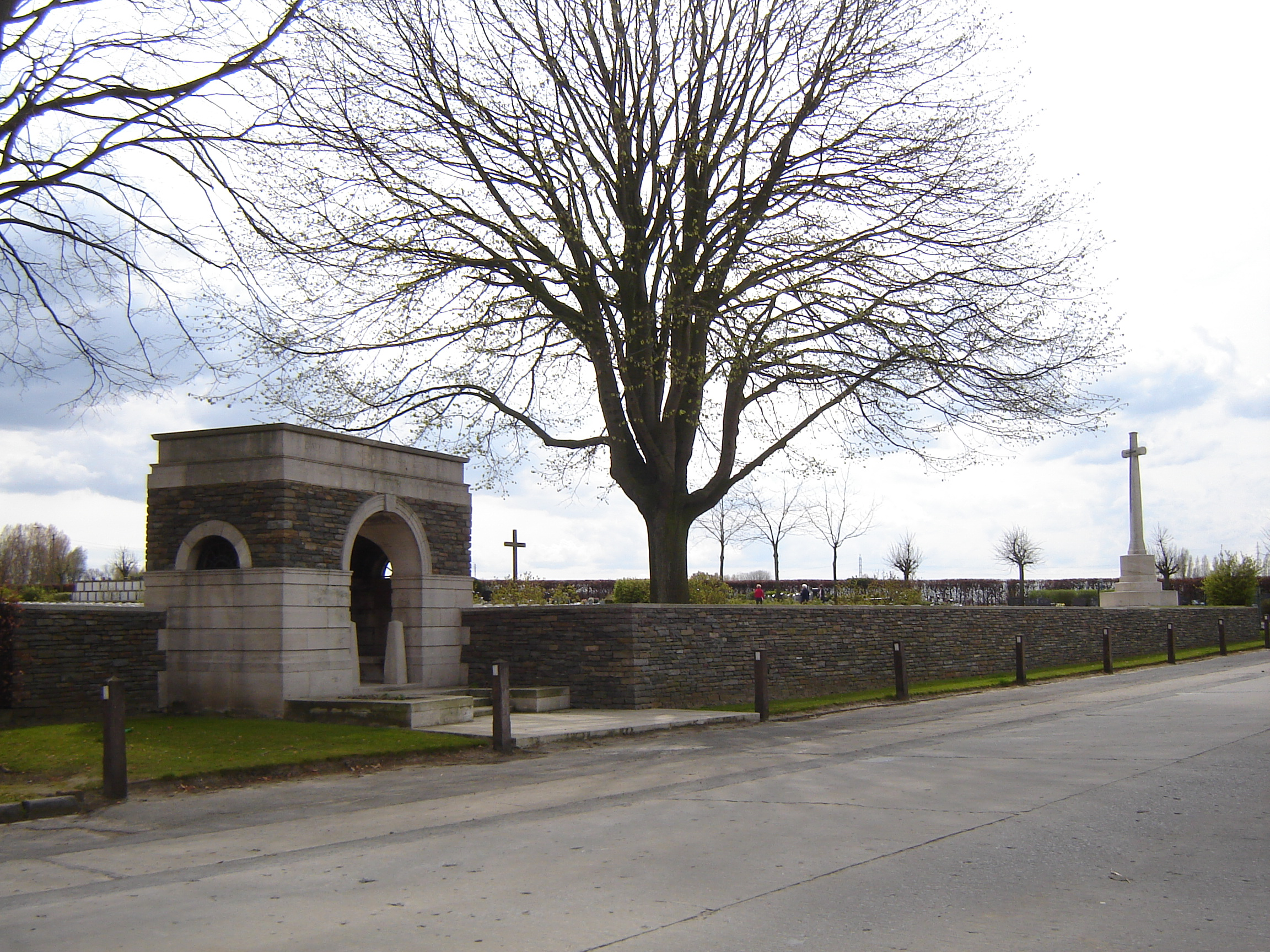 Dadizeele New British Cemetery. Commonwealth war cemetery in Dadizele. Dadizele, Moorslede, West Flanders, Belgium